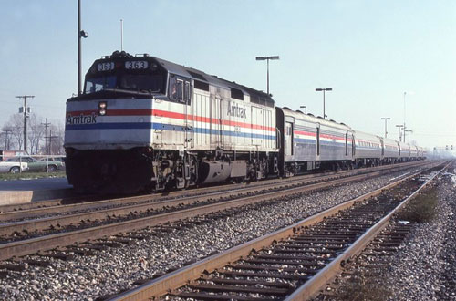 The westbound Wolverine at Hammond/Whiting station in November 1984. A note about identification: Eleven westbound trains passed Hammond/Whiting in 1984. The Cardinal, Broadway Limited, Lake Shore Limited, and Capitol Limited were long-distance trains not consistent with this consist. The International, Twilight Limited, and Lake Cities passed in the late afternoon or after dark, inconsistent with the midday shadows. The Calumet and Indiana Connection were commuter trains without baggage cars. The Pere Marquette was typically two coaches; even on the day after Thanksgiving, it would not have run six coaches. This leaves the Wolverine, which matches the consist and was scheduled for 11:40am.